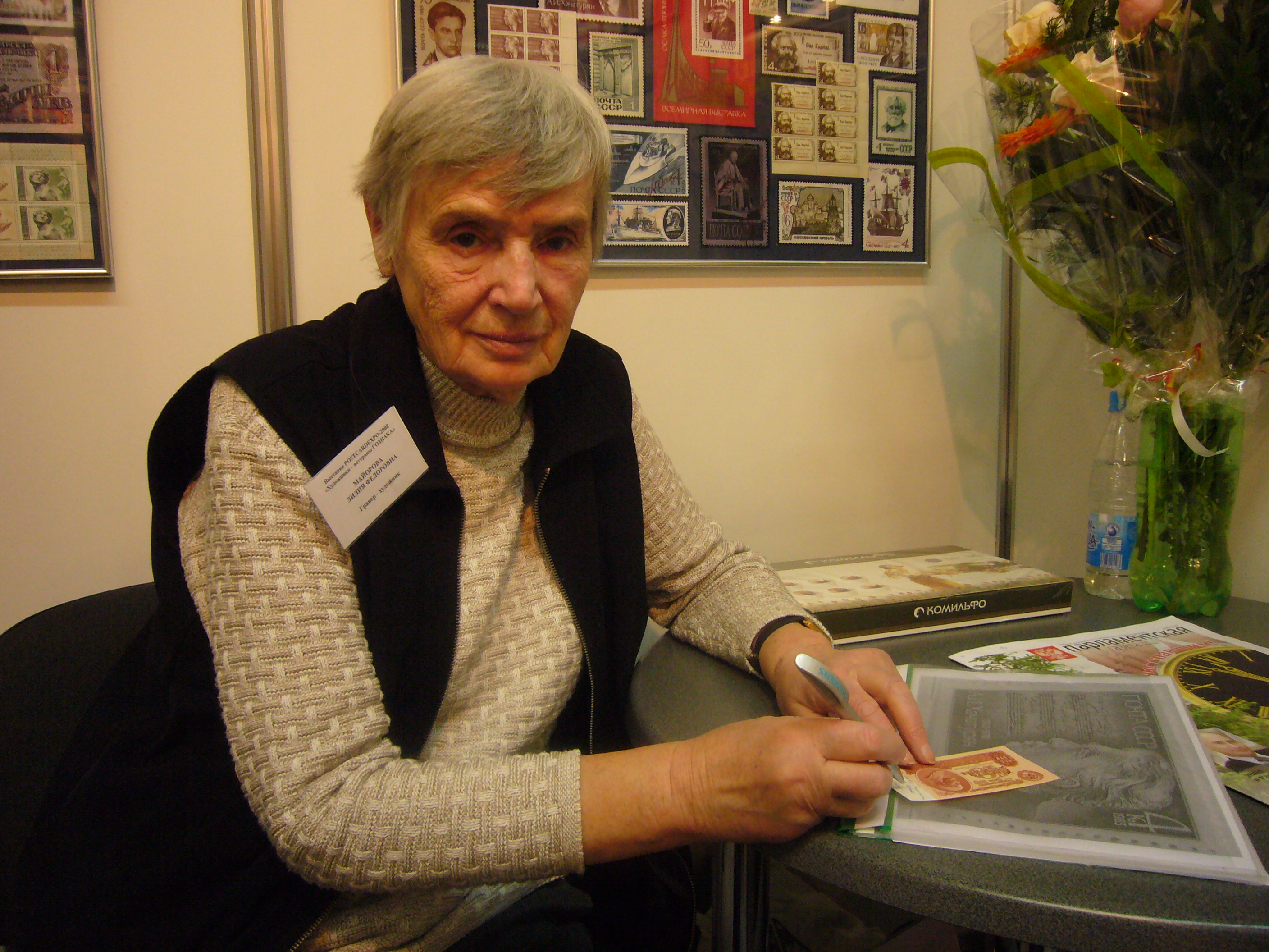 Lidia Mayorova, Goznak engraver that engraved images for 86 USSR stamps, in the postcards exhibition PostCardExpo 2008, January 27, 2008, Moscow. This image is loaded with permission of Lidia Mayorova.